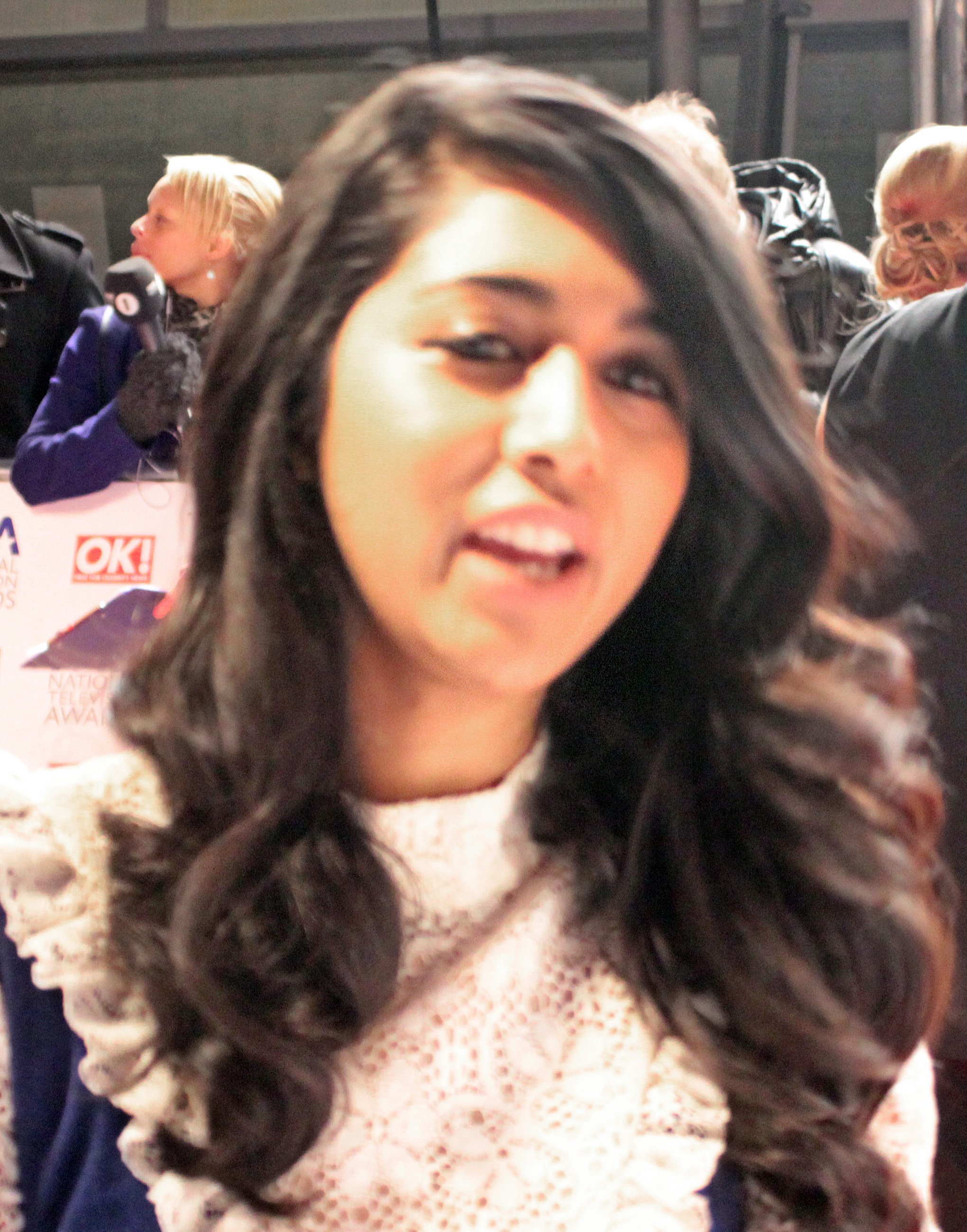 British actress Meryl Fernandes at the National Television Awards 2012